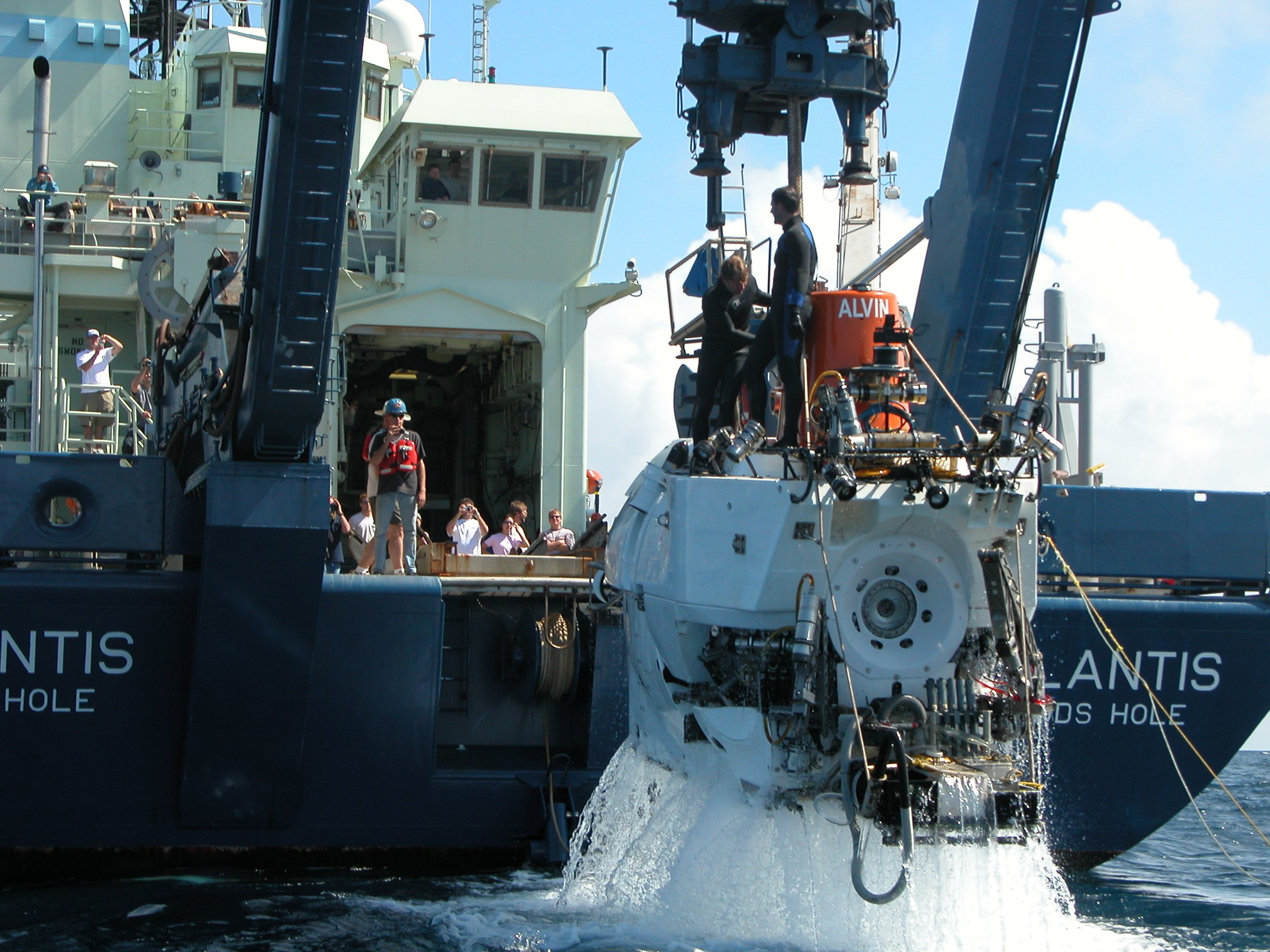 Gulf of Alaska Seamount Expedition. ALVIN being lifted onto the deck of WHOI R/V ATLANTIS by the A-frame, with swimmers Bruce Strickrott and Sean McPeak (Chief ALVIN pilot and electronics technician respectively) working the recovery. Image ID: expl0127, Voyage To Inner Space - Exploring the Seas With NOAA Collect Location: Pacific Ocean, Gulf of Alaska Credit: Gulf of Alaska 2004. NOAA Office of Ocean Exploration